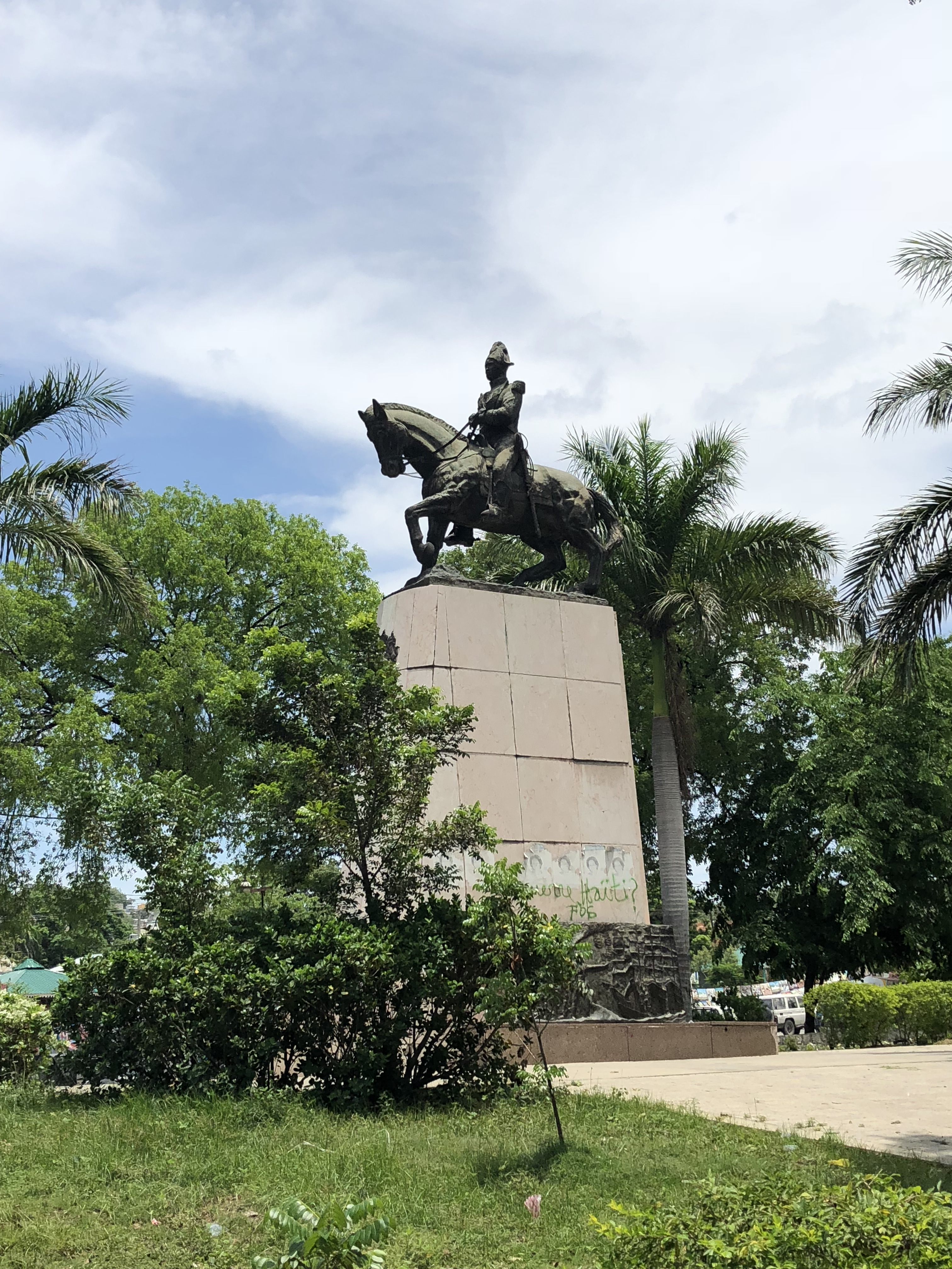 Equestrian statue of the Haitian ruler Henri Christophe on the Champ de Mars in the centre of Port-au-Prince.